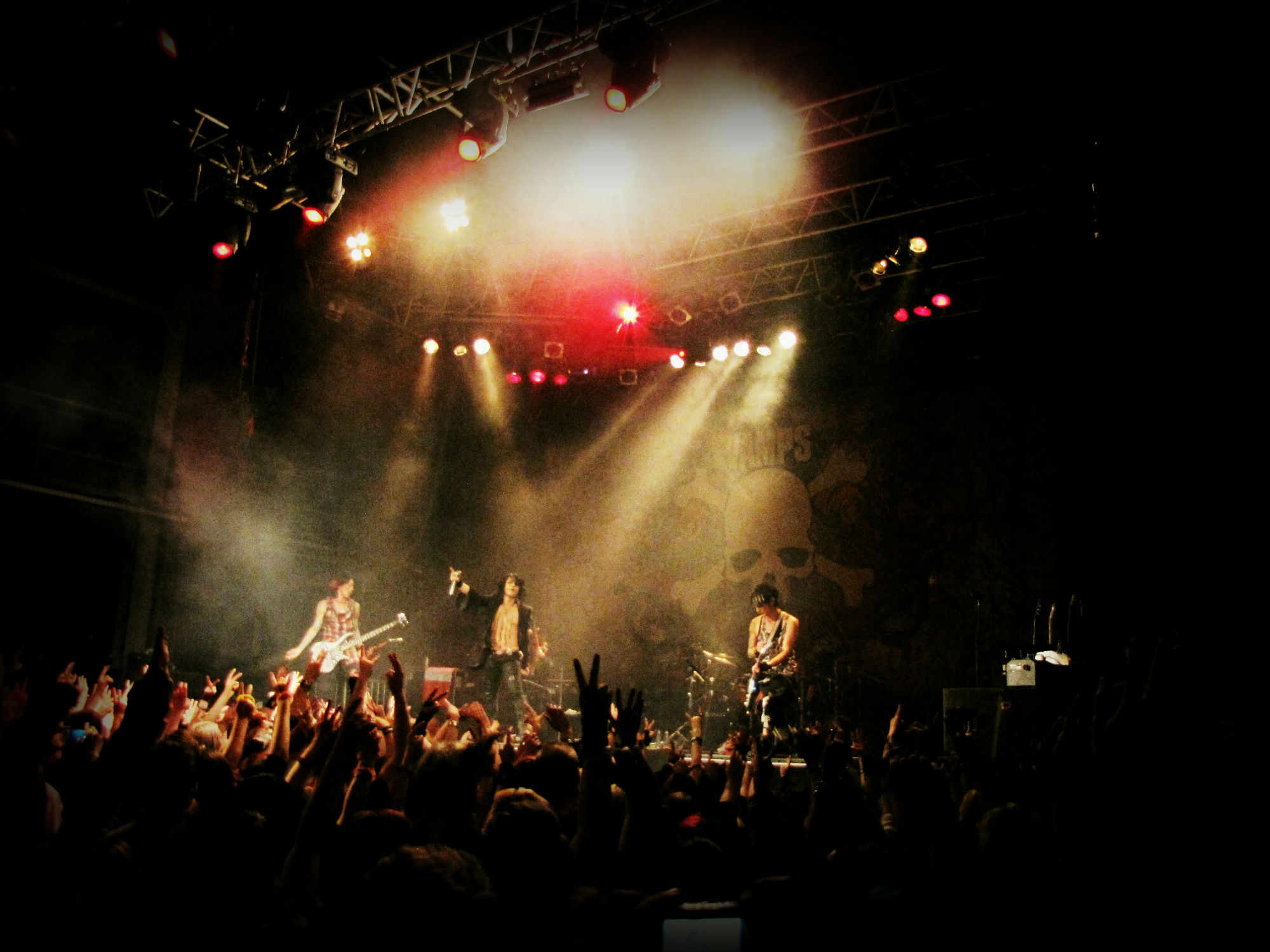 performance of VAMPS , 03.10.2013 in Berlin